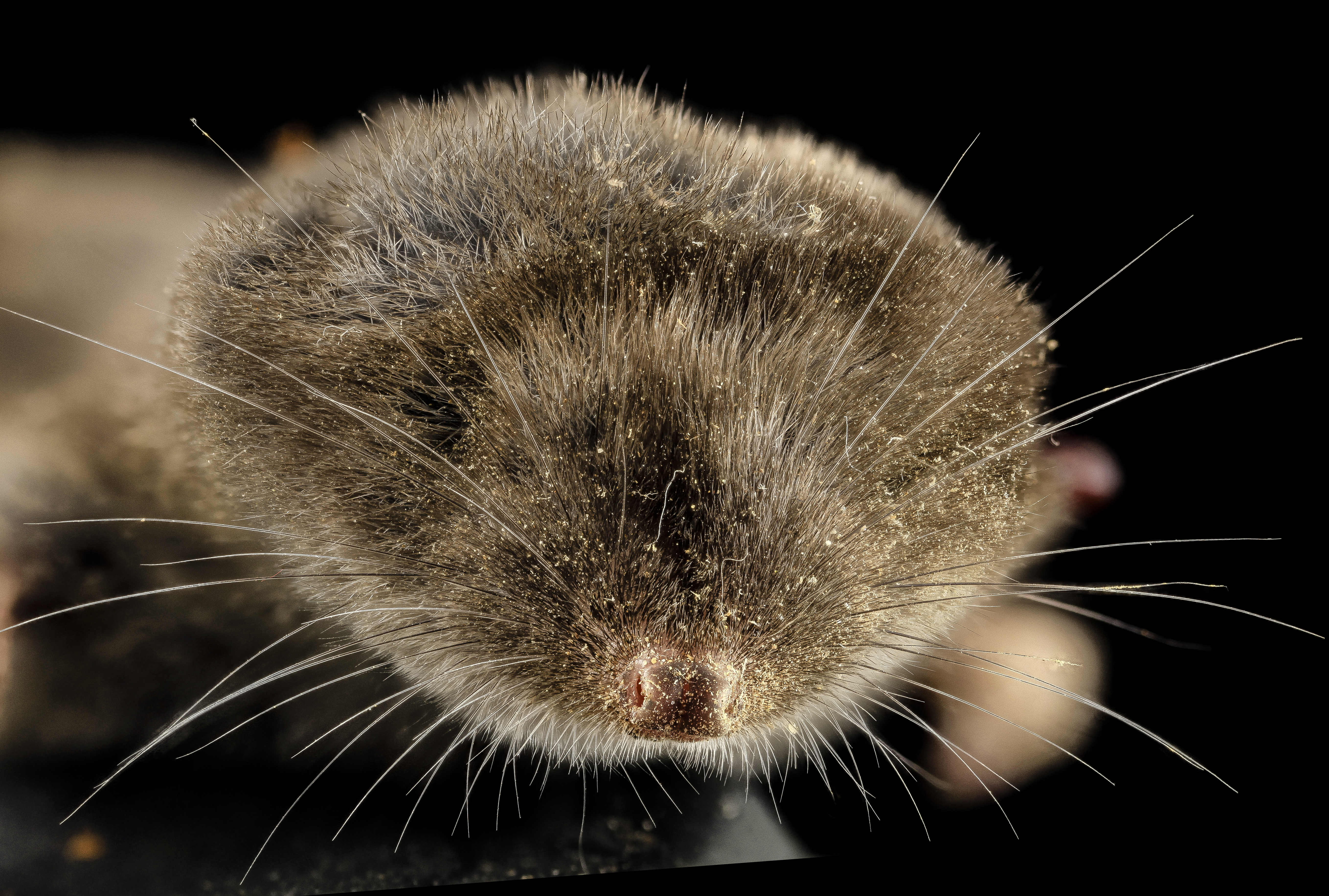 Blarina brevicauda - the short -tailed shrew. This one found dead in the yard in Upper Marlboro, MD. Canon Mark II 5D, Zerene Stacker, Stackshot Sled, 65mm Canon MP-E 1-5X macro lens, Twin Macro Flash in Styrofoam Cooler, F5.0, ISO 100, Shutter Speed 200, link to a .pdf of our set up is located in our profile